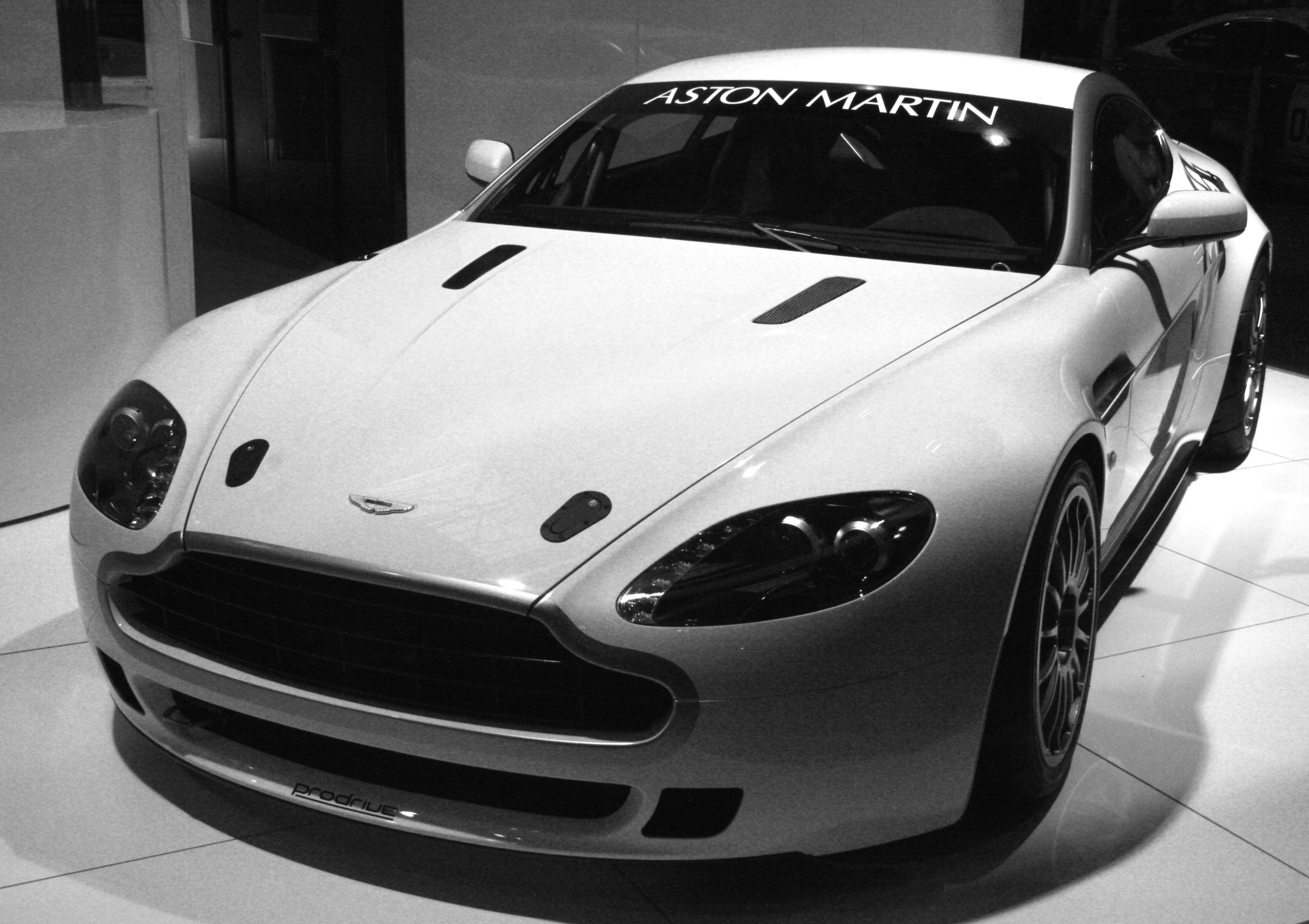 Prodrive Aston Martin (V8 Vantage) GT4Prodrive Aston Martin GT4